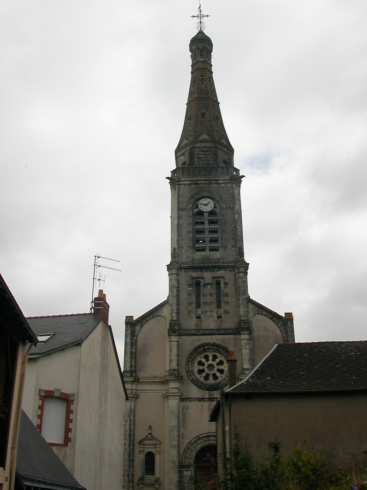 Church of Héric